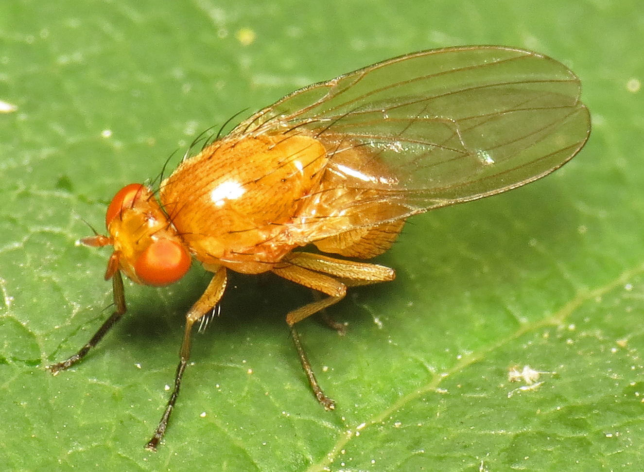 Found on 12 June 2014, Ipswich, Suffolk, UK (TM16644502) on a Rose bush in the back garden. Det. Paul Beuk ( No previous observations in East Suffolk on NBN Gateway.